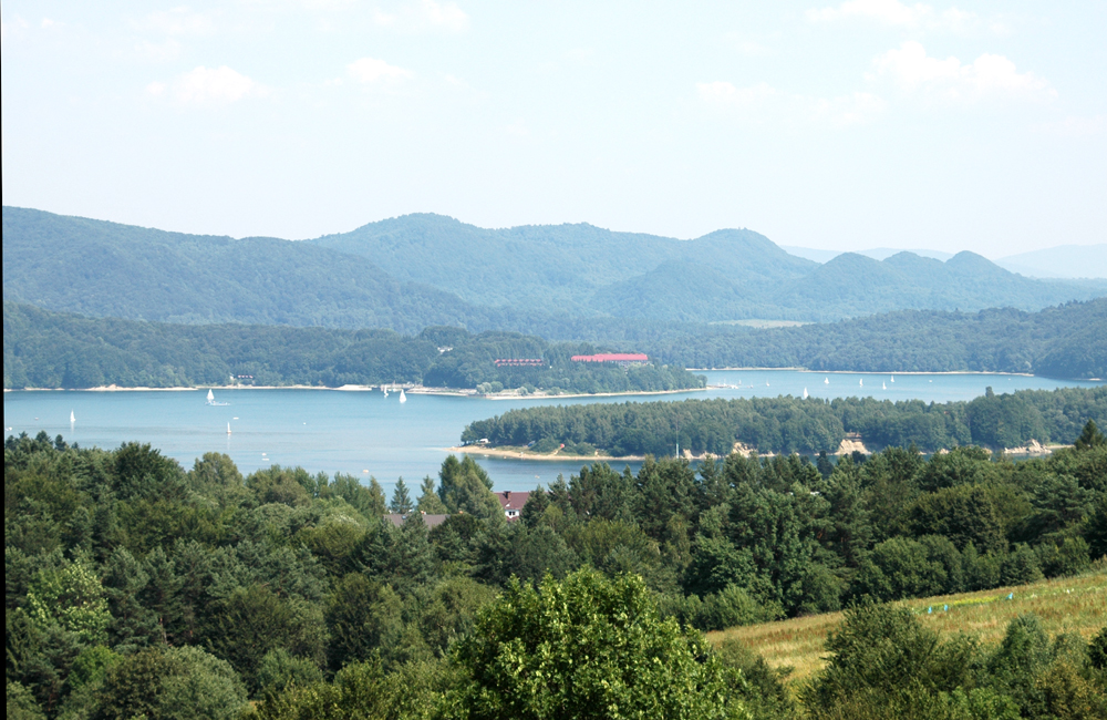 The artificial lake in Solina, Subcarpathian voivodeship, sout-eastern Poland